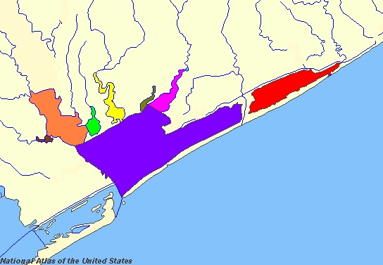 modified from Legend Carancahua Bay Chocolate Bay East Matagorda Bay Keller Bay Lavaca Bay Matagorda Bay Tres Palacios Bay Turtle Bay